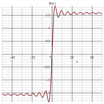 Si(x) 2D plot